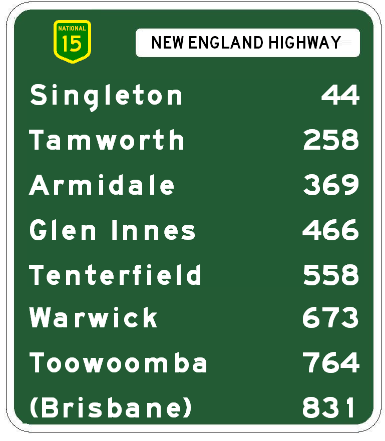 Approximate distances in kilometres from Newcastle.